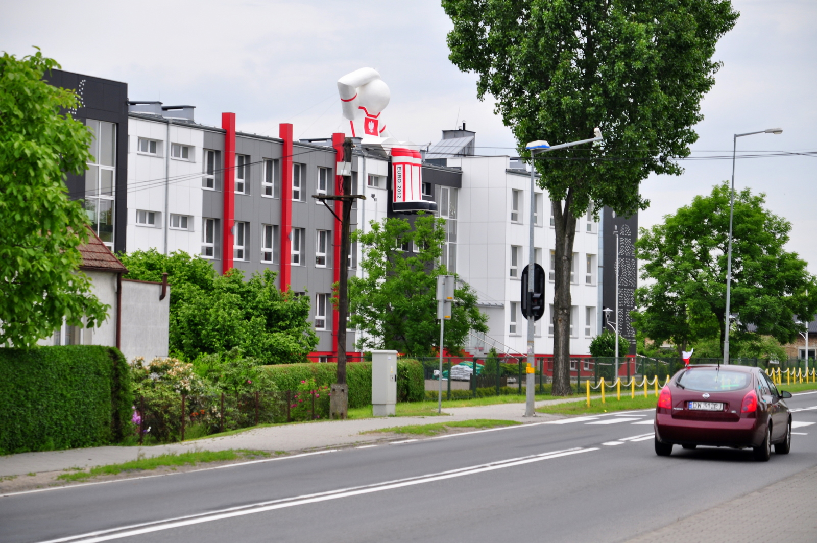 School complex in Deszczno, Poland